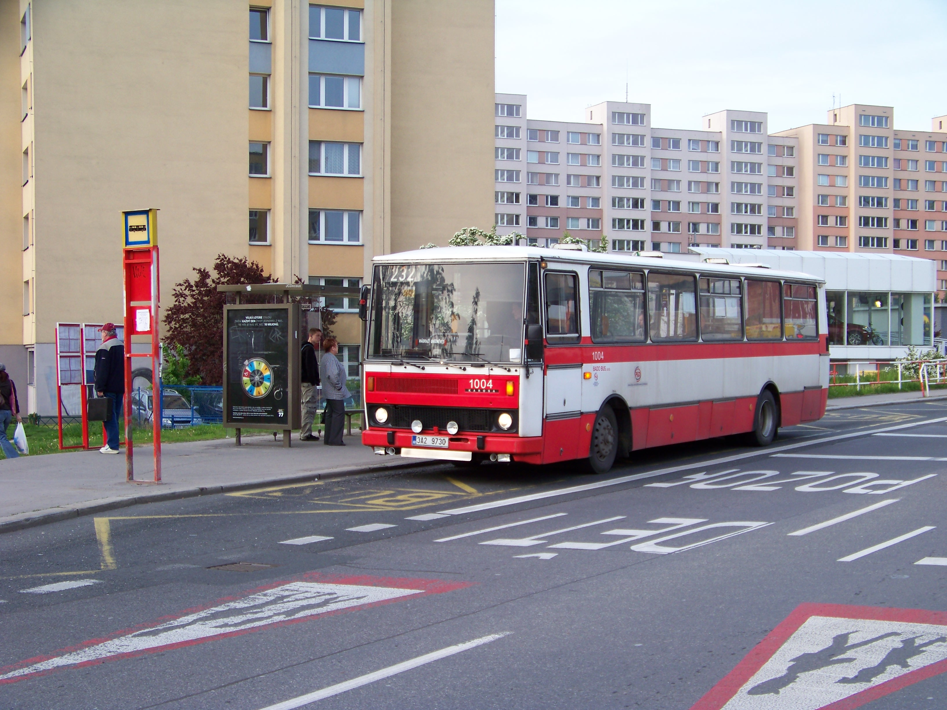 Háje, Prague, the Czech Republic. Kosmonautů Square, bus stop Horčičkova, Karosa bus on the line 232.